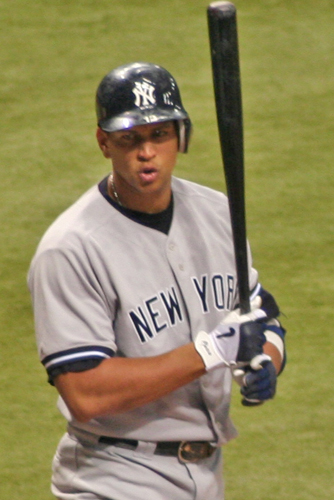 Alex Rodriguez sharing his thoughts on a called strike. Photograph by Googie Man